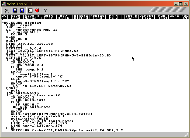 Screenshot of the GFA BASIC editor for Atari ST running under the WinSTon emulator.